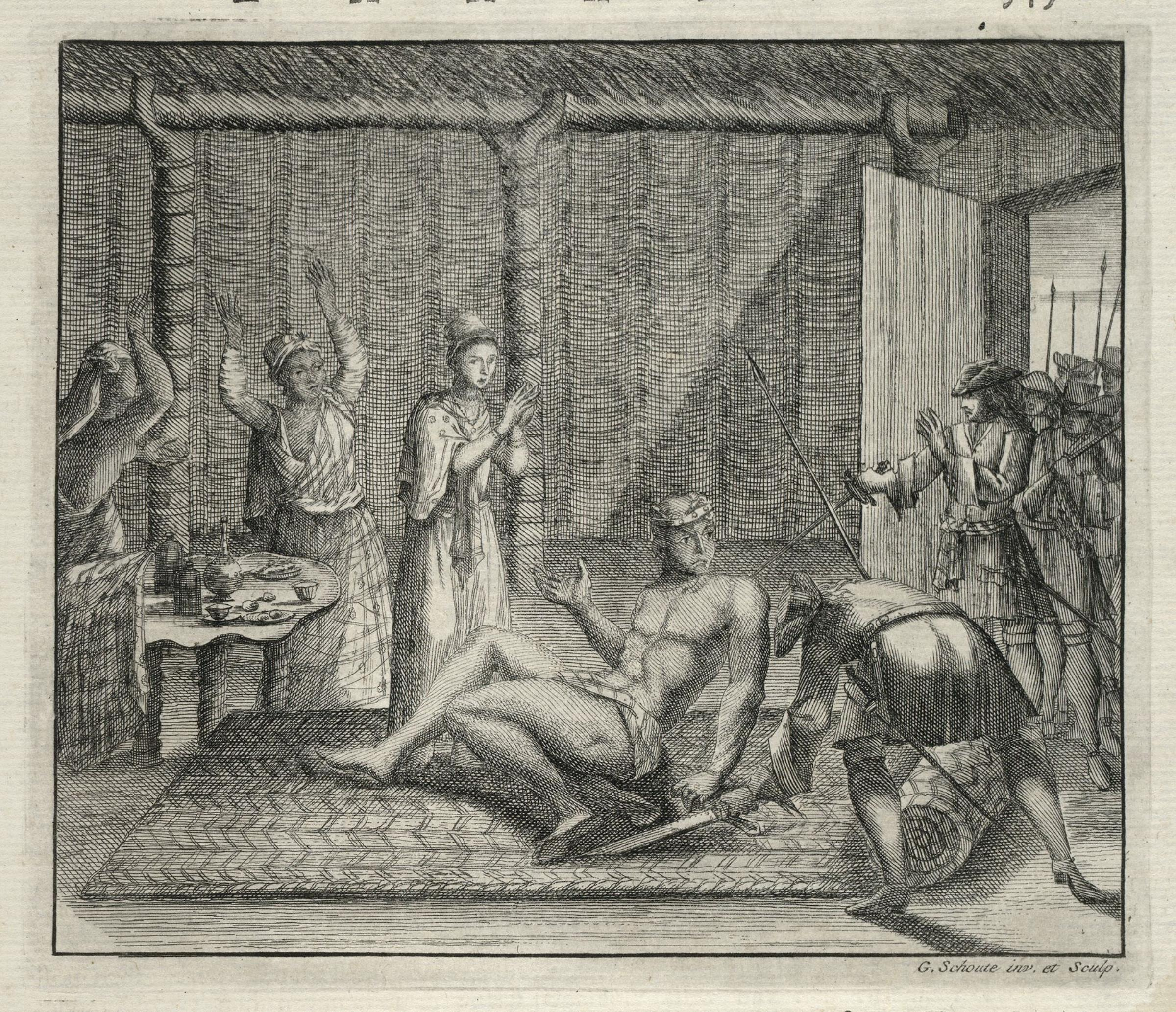 Murder of the king of Ternate in 1681. The king in question was Kaitsjili Sibori or Kaitsjili Amsterdam. Under his rule there had already been much discord with the Dutch and in 1680 he had plotted an unsuccessful mass murder at Landvoogd Padbrugge. The unrest between the two parties persisted and in 1681 the king himself was murdered. The illustration is taken from the work 'Oud en Nieuw Oost-Indiën' by François Valentyn.